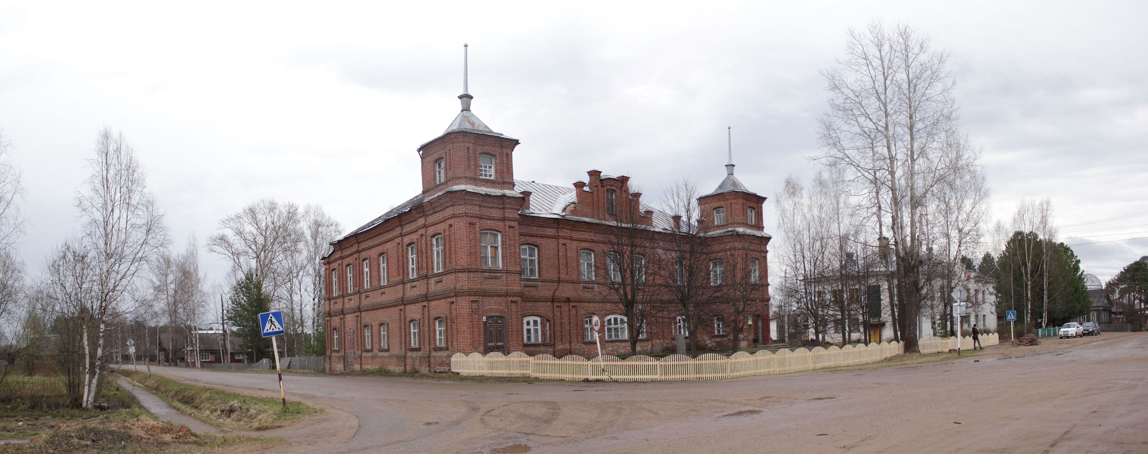 Kologriv Museum of Local Lore behalf G.A. Ladyzhensky